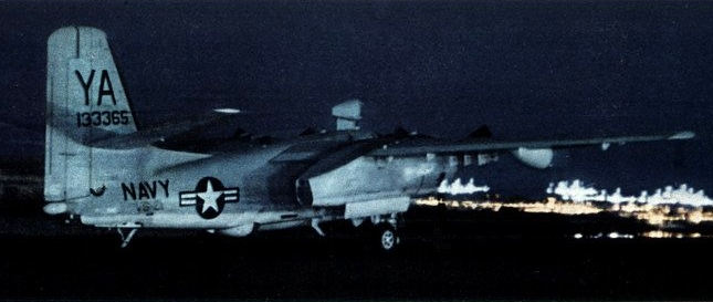 A U.S. Navy Grumman S2F-2 Tracker (BuNo 133365) from Anti-Submarine Squadron VS-21 "Lightning Bolts" aboard the aircraft carrier USS Kearsarge (CVS-33). VS-21 was assigned to the Kearsarge for a deployment to the Western Pacific from 5 September 1959 to 15 March 1960.